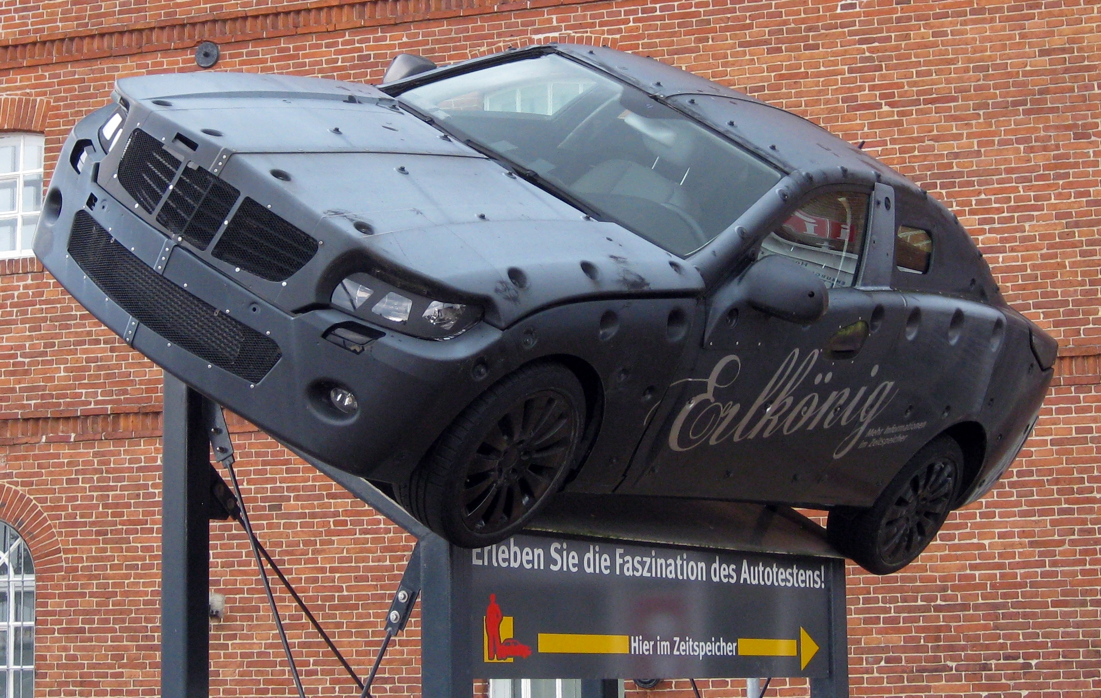 Development mule of a Mercedes-Benz car in front of a tourist information (including an exhibition for a car testing area) in Papenburg, Germany